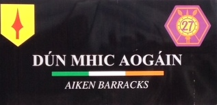 Aiken Barracks. Irish Army facility, Dundalk, County Louth.